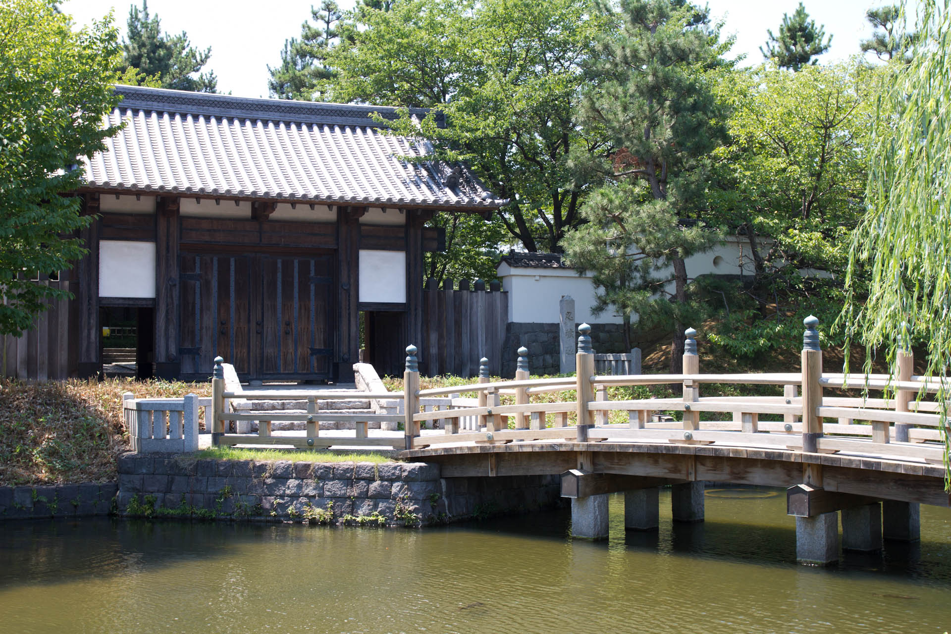 Oshi Castle, Higashi Gate and Azuma Bridge